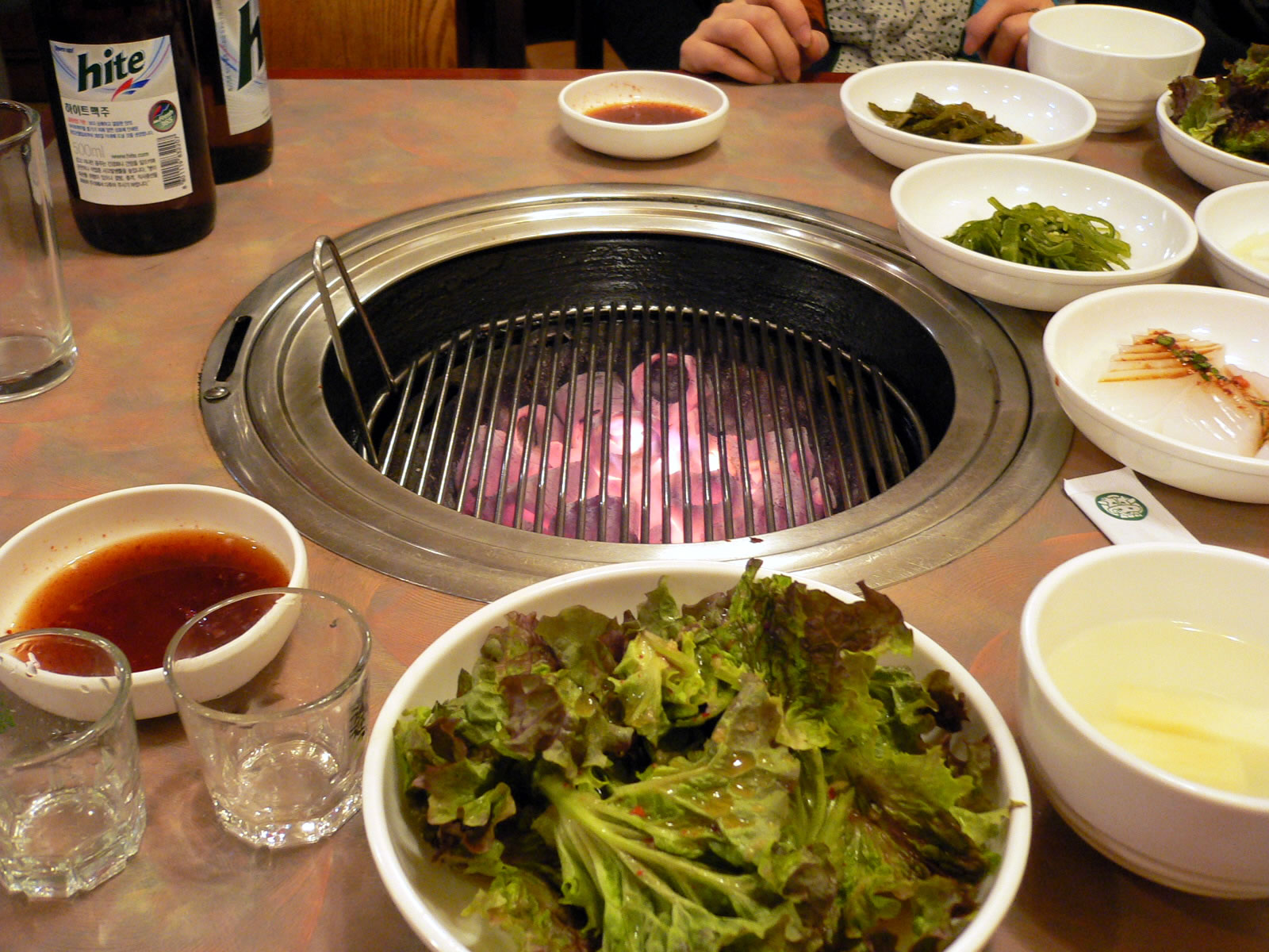 Grill for Korean barbeque.